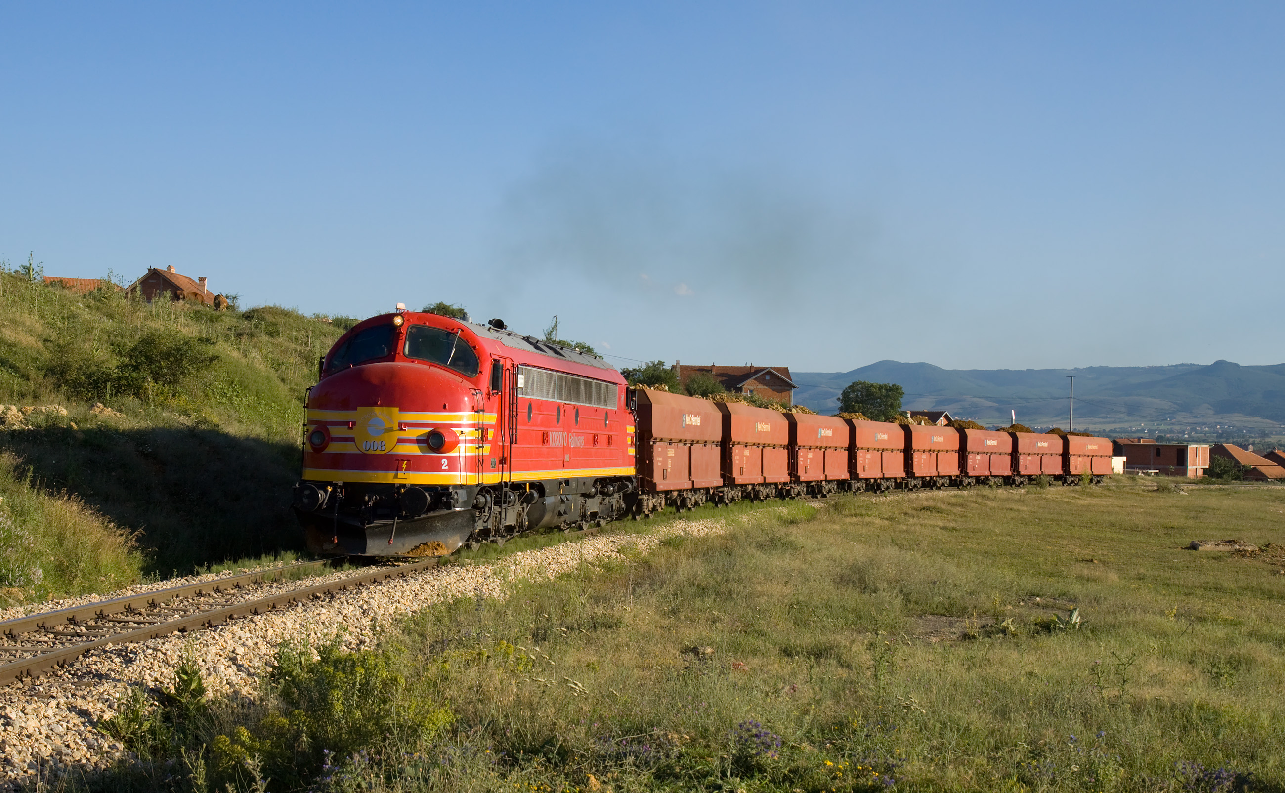 Former Norwegian Di 3 locomotive, now Kosovo Railways number 008, climbing the grade from Glogovac to the NewCoFerronikeli plant with one half of an ore train